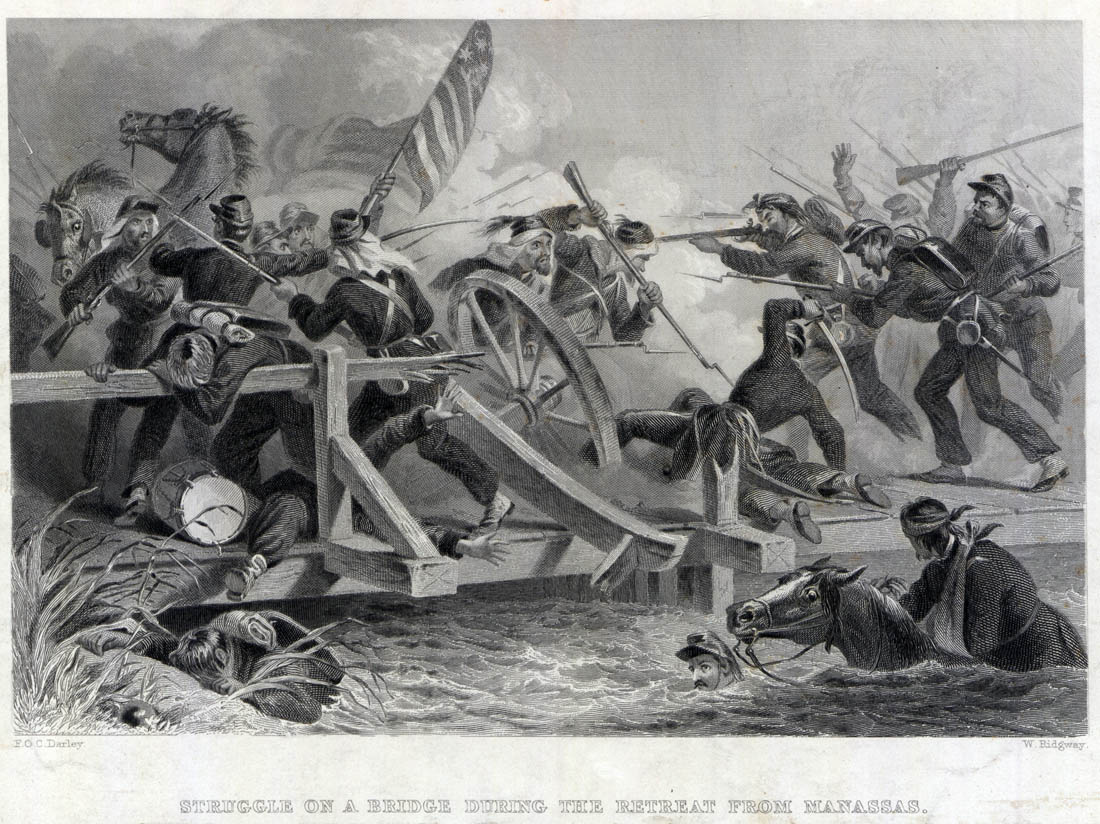 Bridge during the Retreat from Manassas, First Battle of Bull Run (First Manassas), Virginia, 1861. Engraving by William Ridgway based on a drawing by Felix Octavius Carr Darley